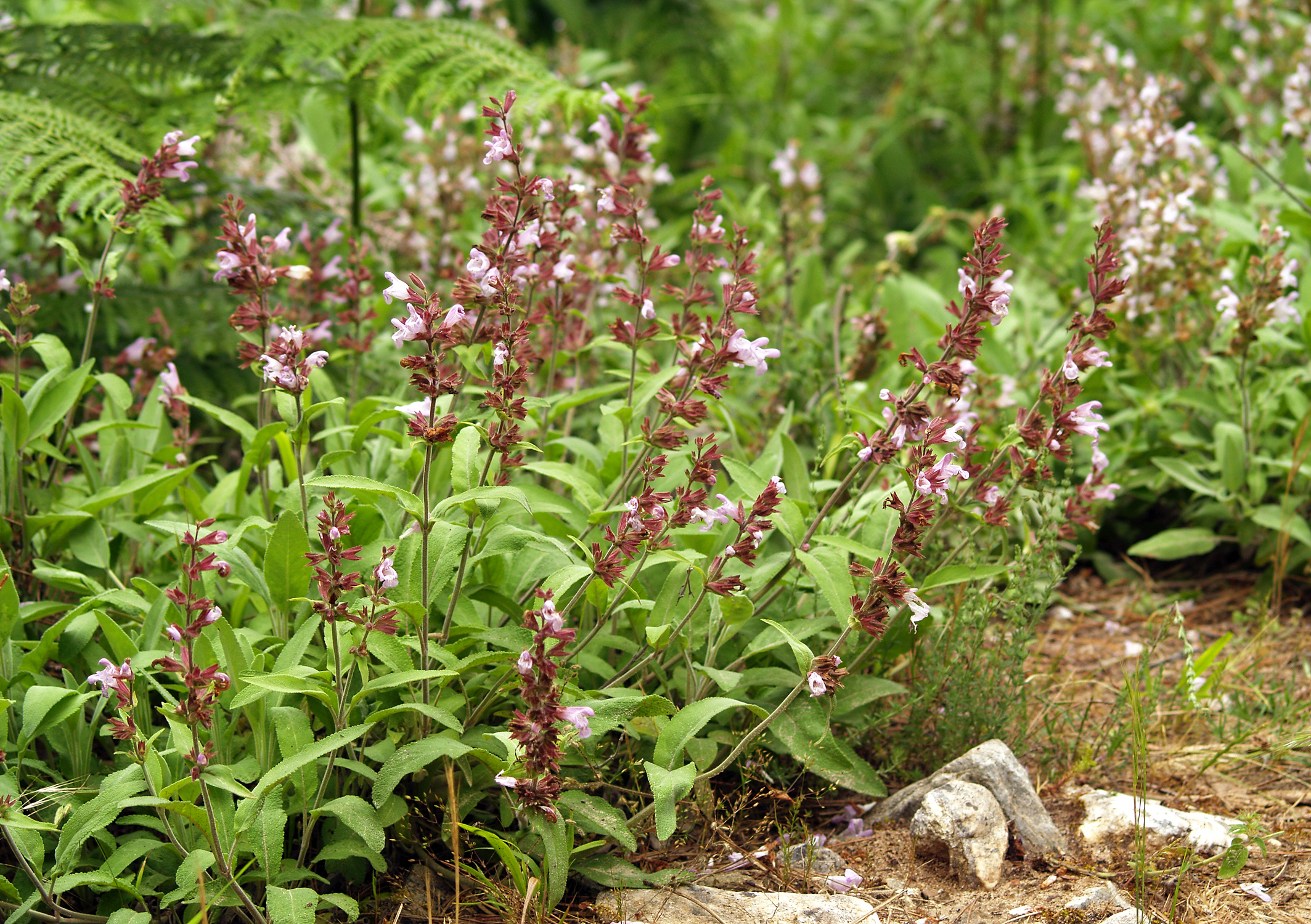 Common sage (Salvia officinalis), Thasos, Greece